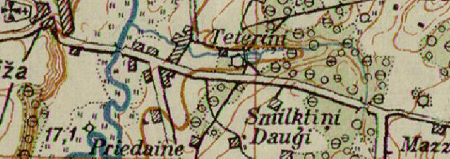 Topographic map in scale 1:75 000, 1926